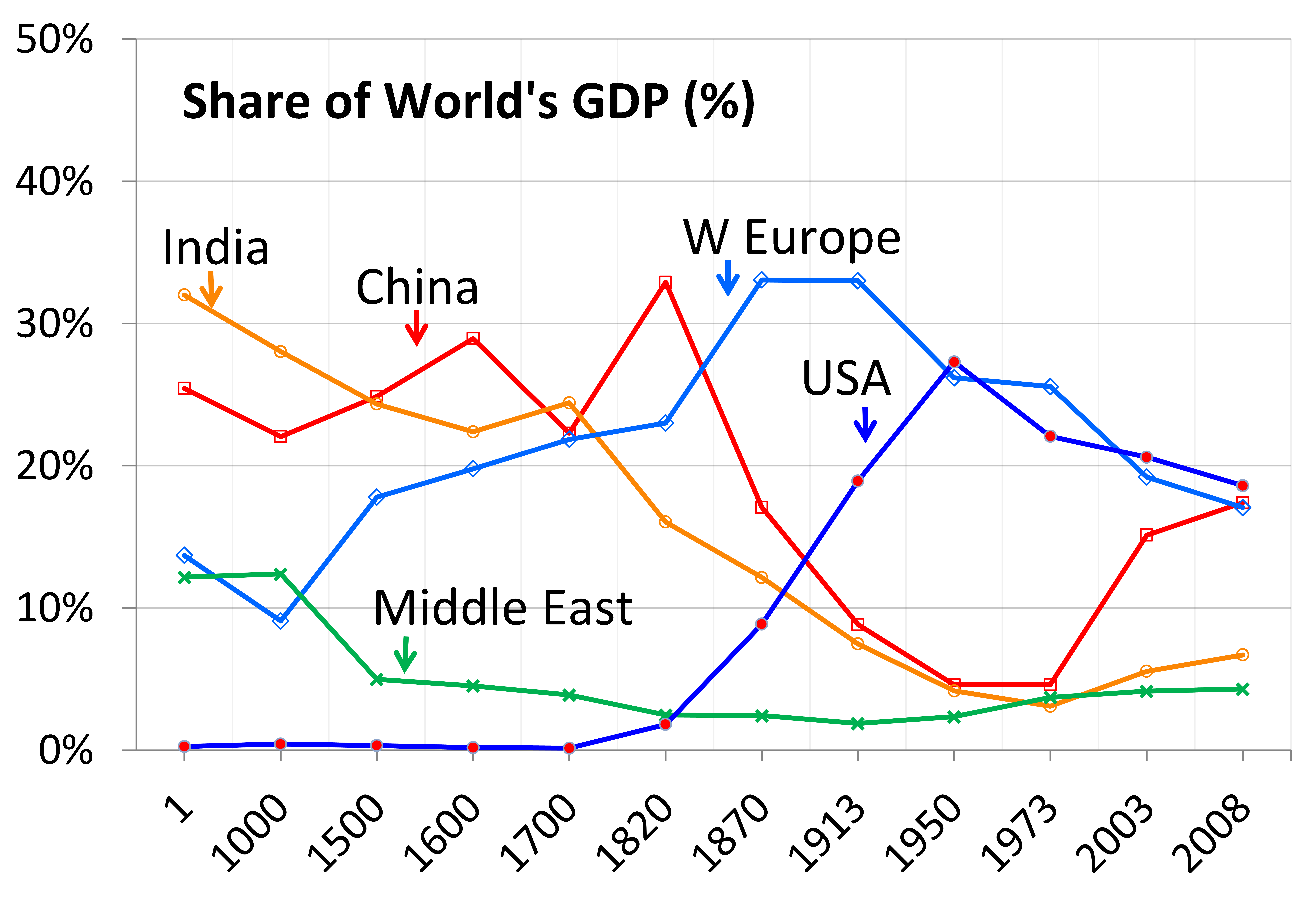 This map shows the evolution of major economies over two millennia, in terms of percent GDP contribution by each major economy over history. The chart plots the data from the published tables of Angus Maddison as of 2010. The %GDP of Western Europe in the chart is the region in Europe that includes the following modern countries - the UK, France, Germany, Italy, Belgium, Switzerland, Denmark, Finland, Sweden, Norway, Netherlands, Portugal, Spain and other smaller states in the Western part of Europe. The %GDP of Middle East in the chart is the region in West Asia and Northeast Africa that includes the following modern countries - Egypt, Israel, the Palestinian Territories, Lebanon, Syria, Turkey, Jordan, Saudi Arabia, Qatar, Bahrain, Kuwait, UAE, Oman, Yemen, Iran, Iraq and others in the Arabian region. Data Source: Tables of Prof. Angus Maddison, which can be downloaded in a spreadsheet from here. The data for the first 2003 years (1-2003 AD) are in the table of hardcopy version here: Maddison A (2007), Contours of the World Economy I-2030AD, Oxford University Press, ISBN 978-0199227204 The data can also be viewed in a different graph here, as prepared by Ken Henry (Secretary to the Treasury, Australian Government, 18 May 2010).